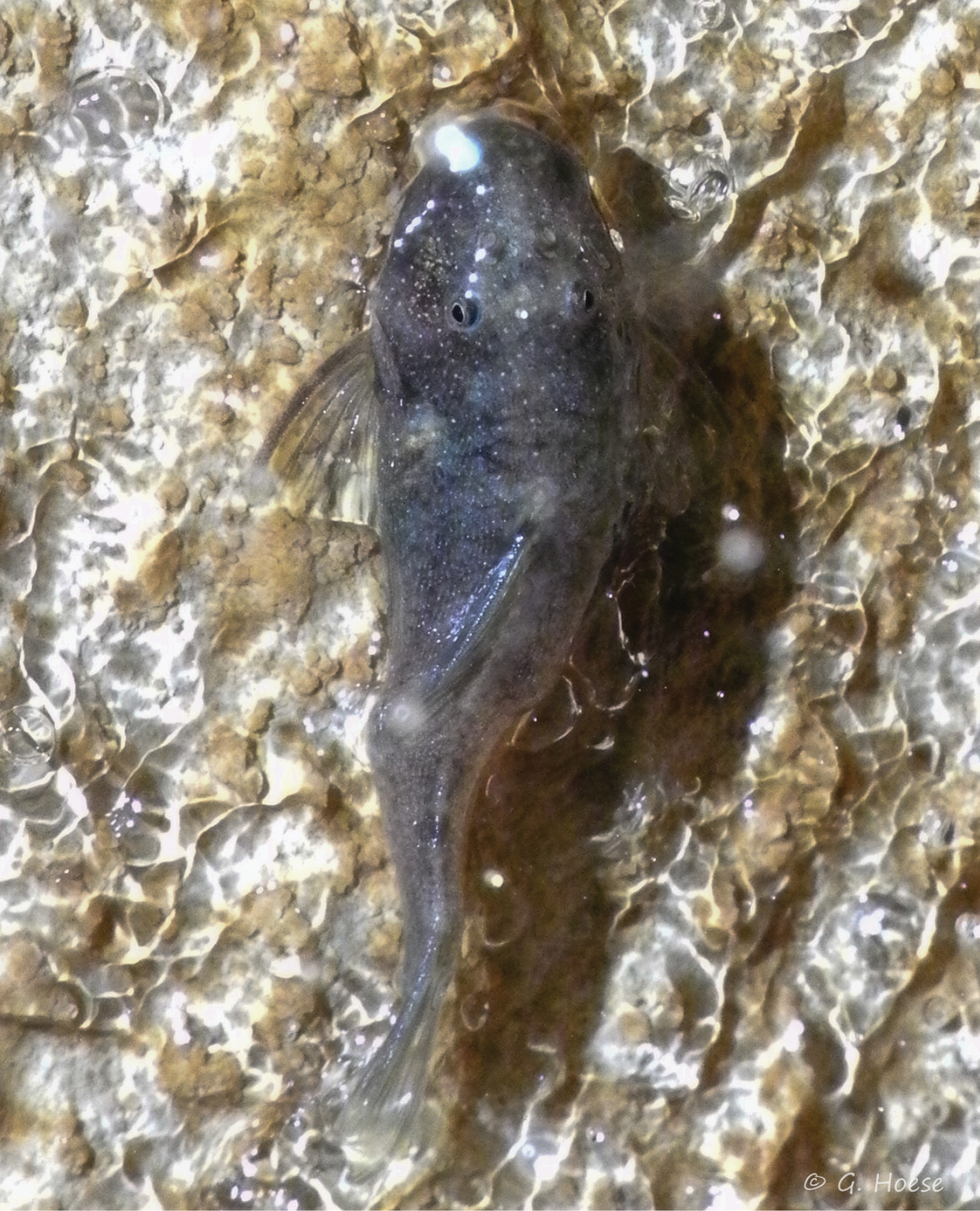 Image of a cave-climbing suckermouth armoured catfish, native to Ecuador, Chaetostoma microps. Image caption : Chaetostoma microps in situ on flowstone wall in sheet flow. Note that the fish is facing up. The slope at this location is estimated to be approximately 75 degrees. From : (16 April 2015). "Observation of the Catfish Chaetostoma microps Climbing in a Cave in Tena, Ecuador". Subterranean Biology 15: 29-35. Retrieved on 13 May 2015.